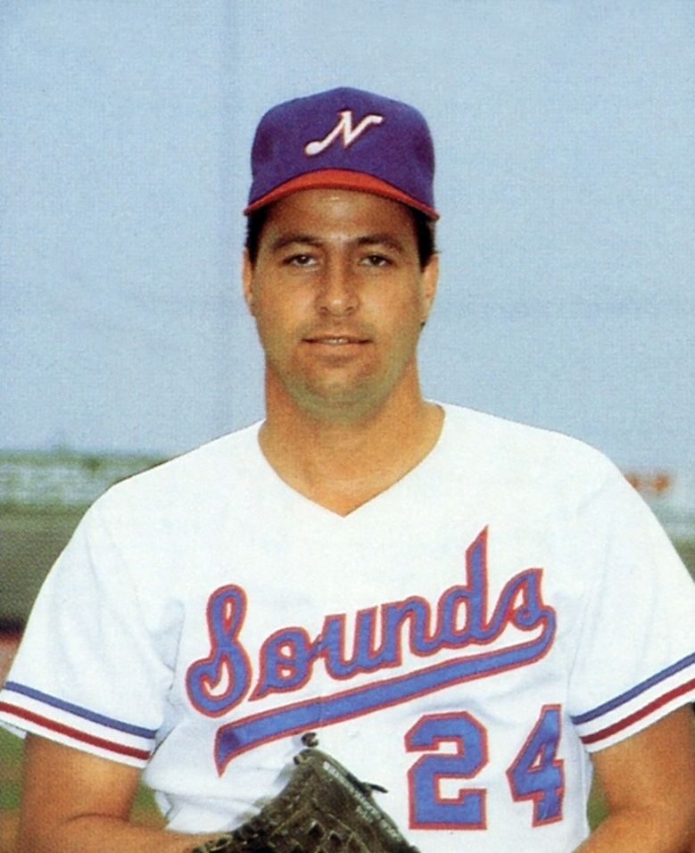 Pitcher Keith Brown of the 1988 Nashville Sounds Minor League Baseball team of the American Association